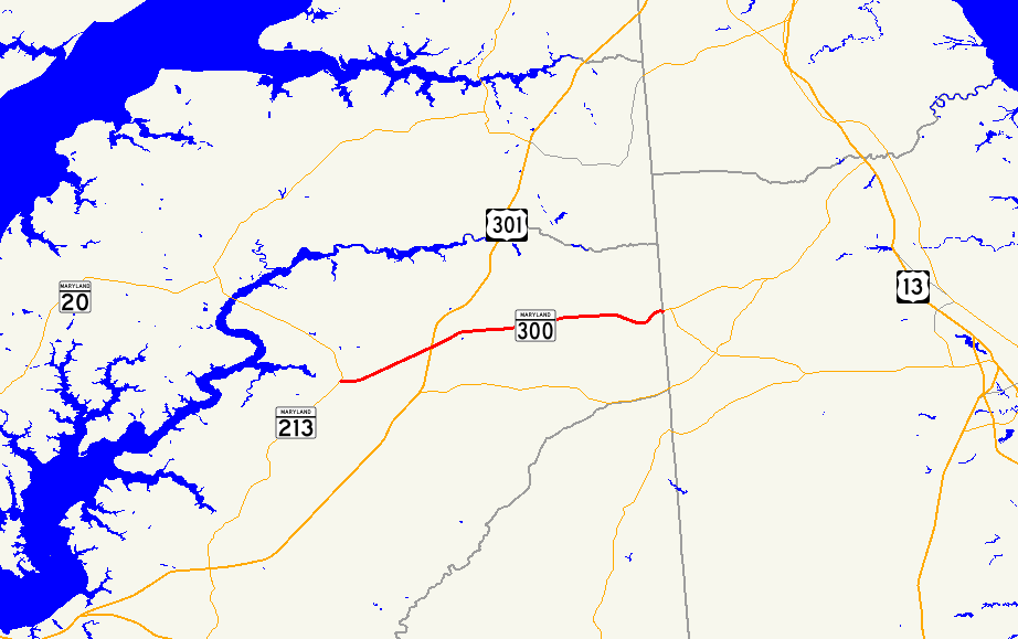 Map of Maryland Route 300